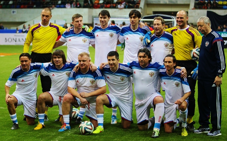 Legends Cup (Russia) 2015